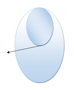 Рефлектор офсетной антенны вырезан сбоку из параболоида вращения